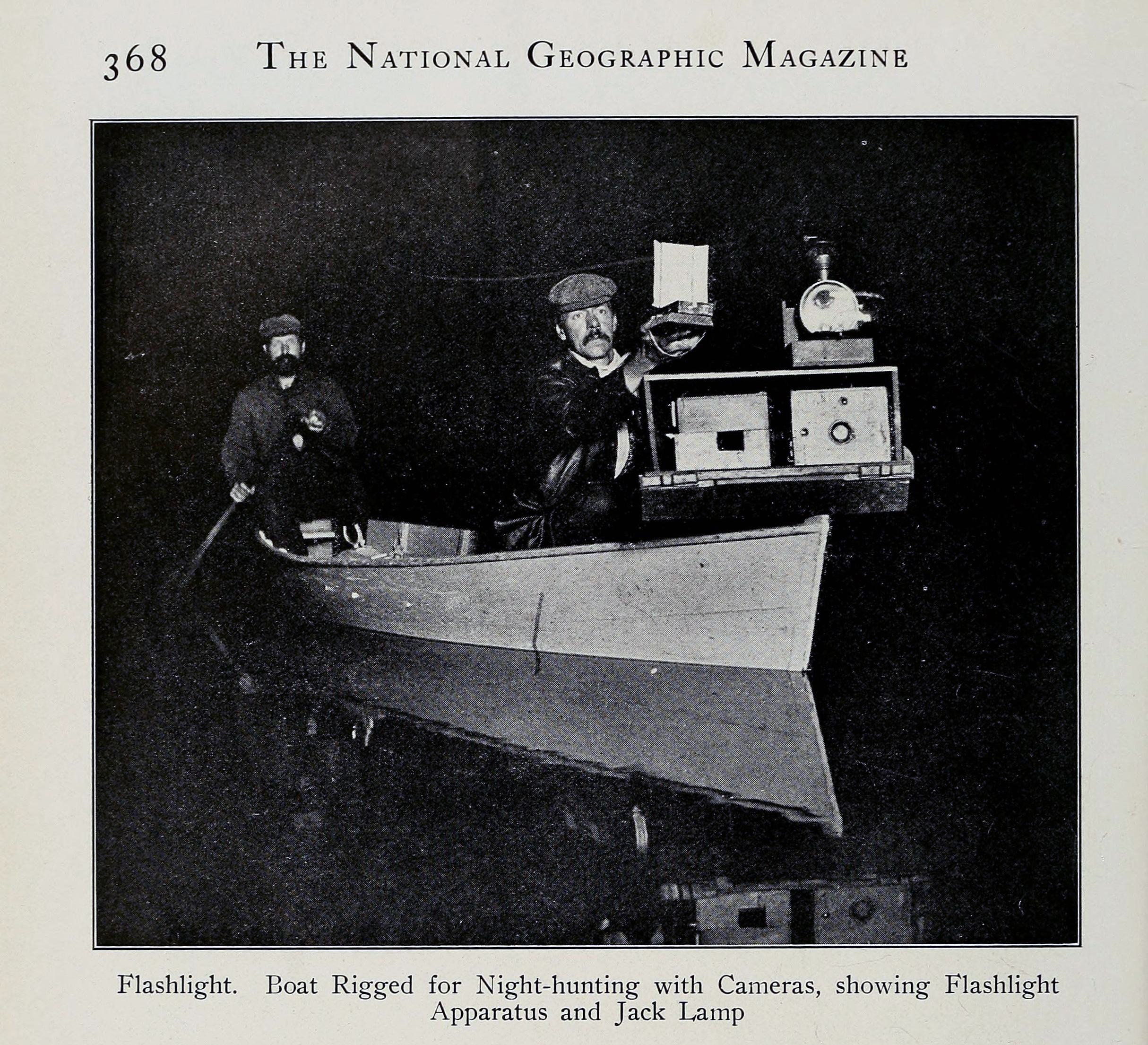 Illustration of an articje in The National Geographic.